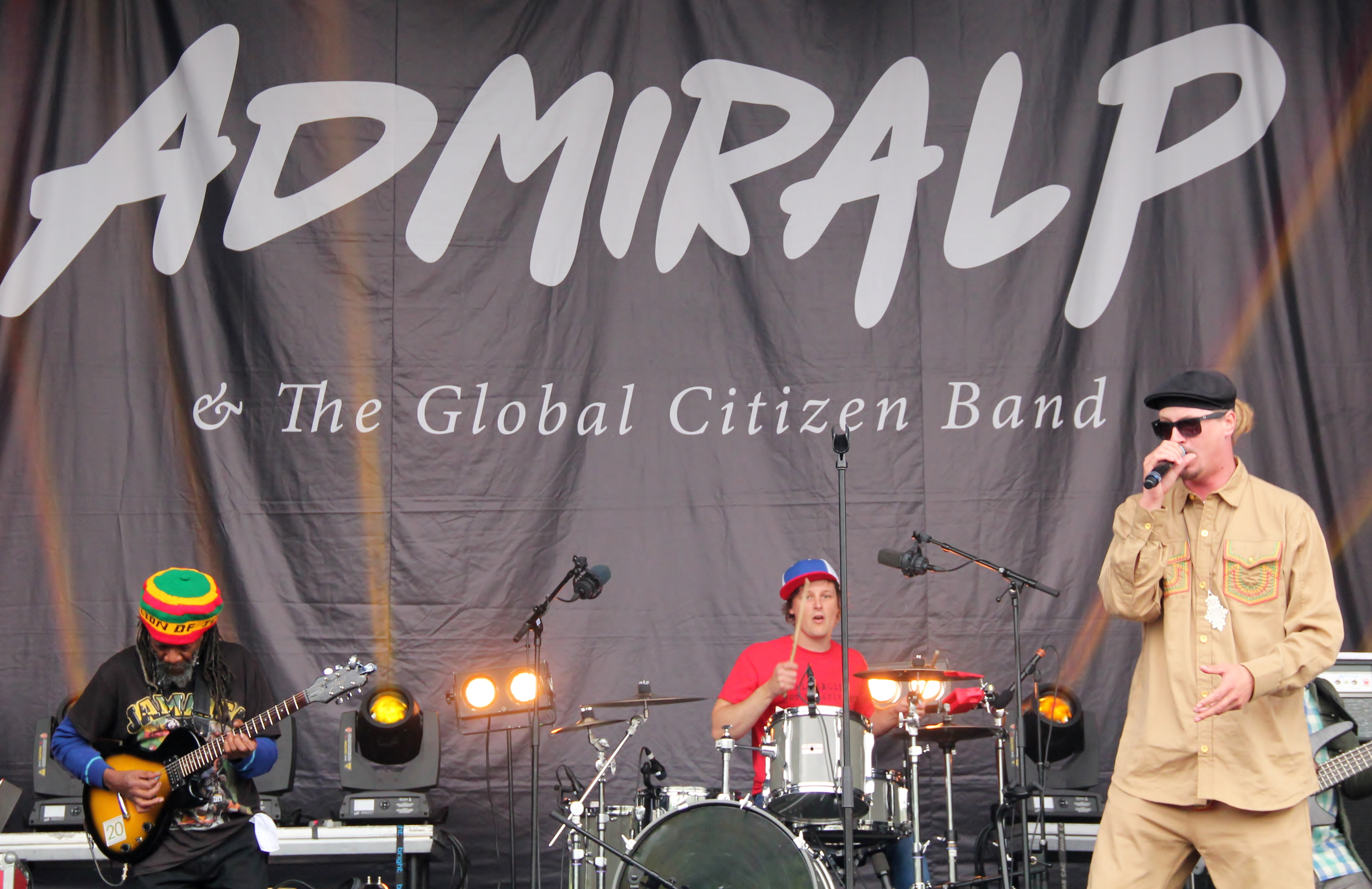 Admiral P & The Global Citicen Band at the 2015 Granittrock in Oslo